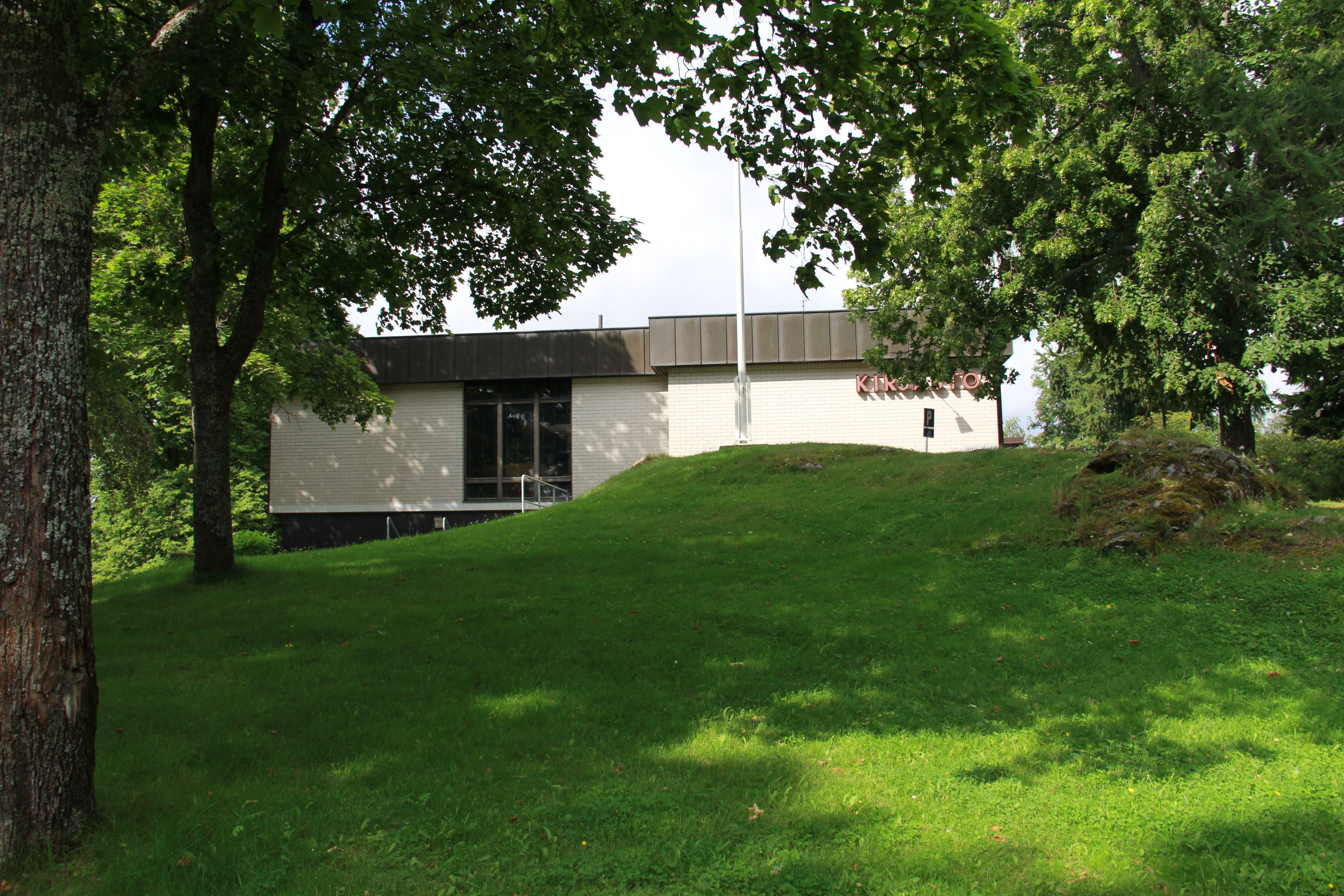 Nälkälinnanmäki, Savonlinna, Finland. A hill near Olavinlinna Castle. Main library completed in 1964, architects Kaisa Harjanne and Maija Suurla.